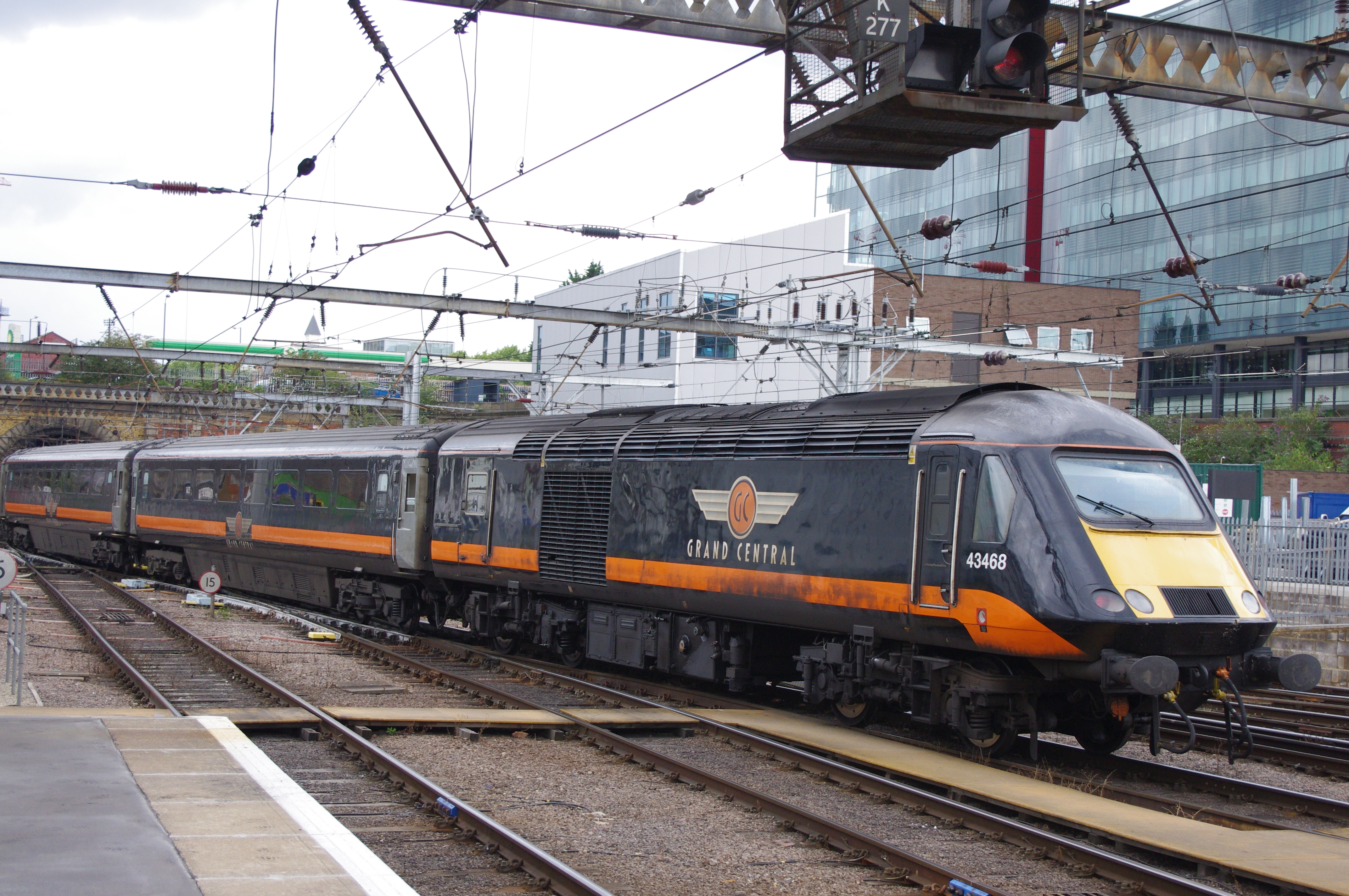 43468 Departs London King's Cross